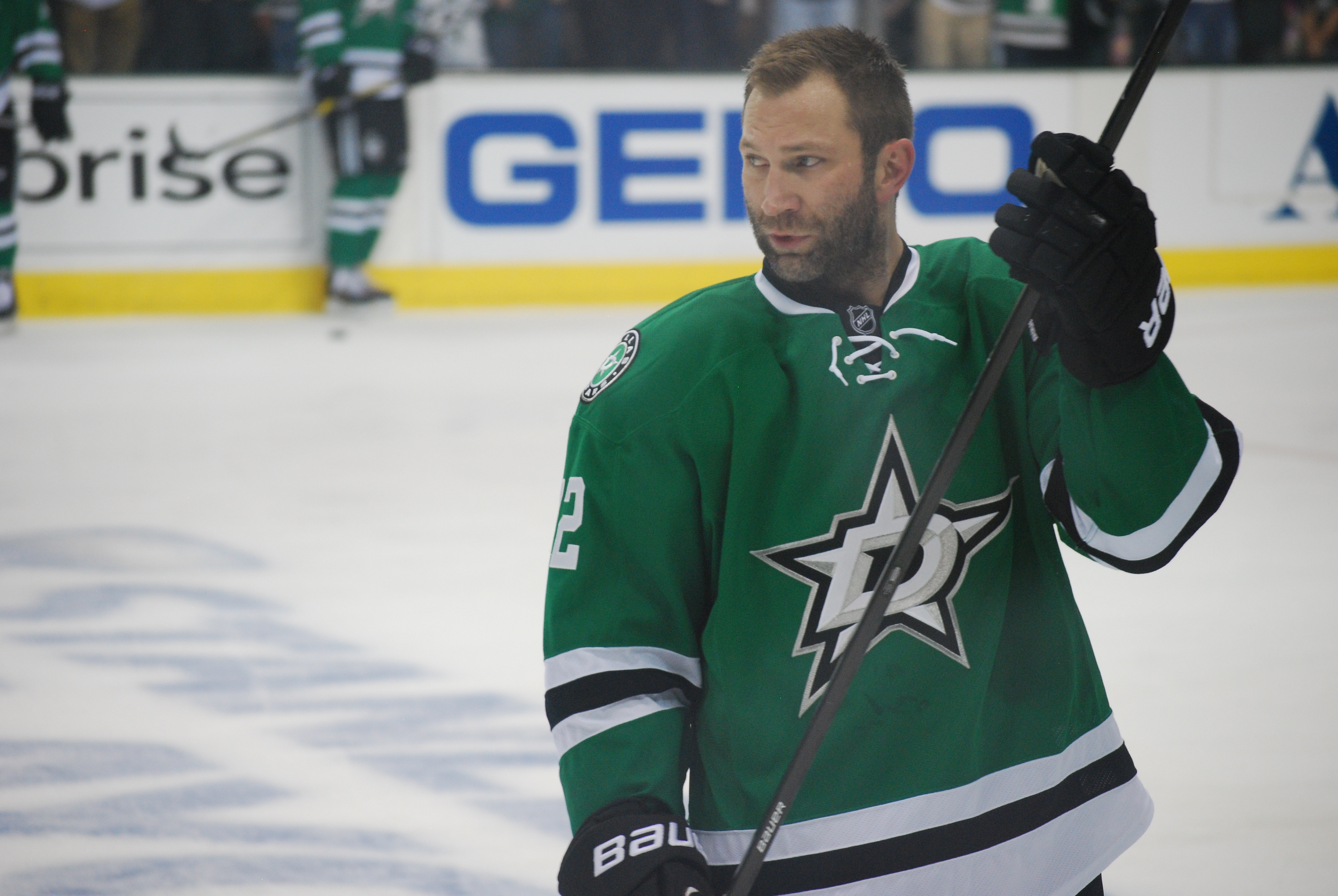 Erik Cole 2014-04-27